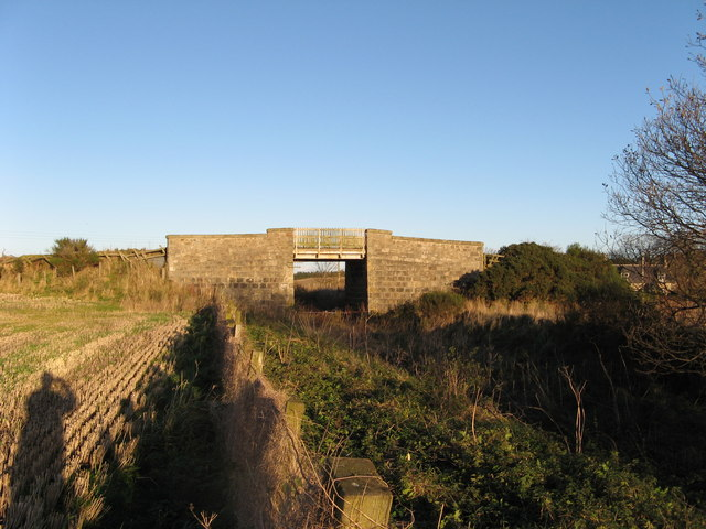 Disused Railway Track and Road Bridge, Tillynaught The disused track and road bridge are situated a short distance south west of the former Tillynaught Junction Station on the old Banff, Portsoy and Strathisla Railway. The junction split the line into two branches; one going to Banff and the other to Portsoy. It is eerily silent now!!!